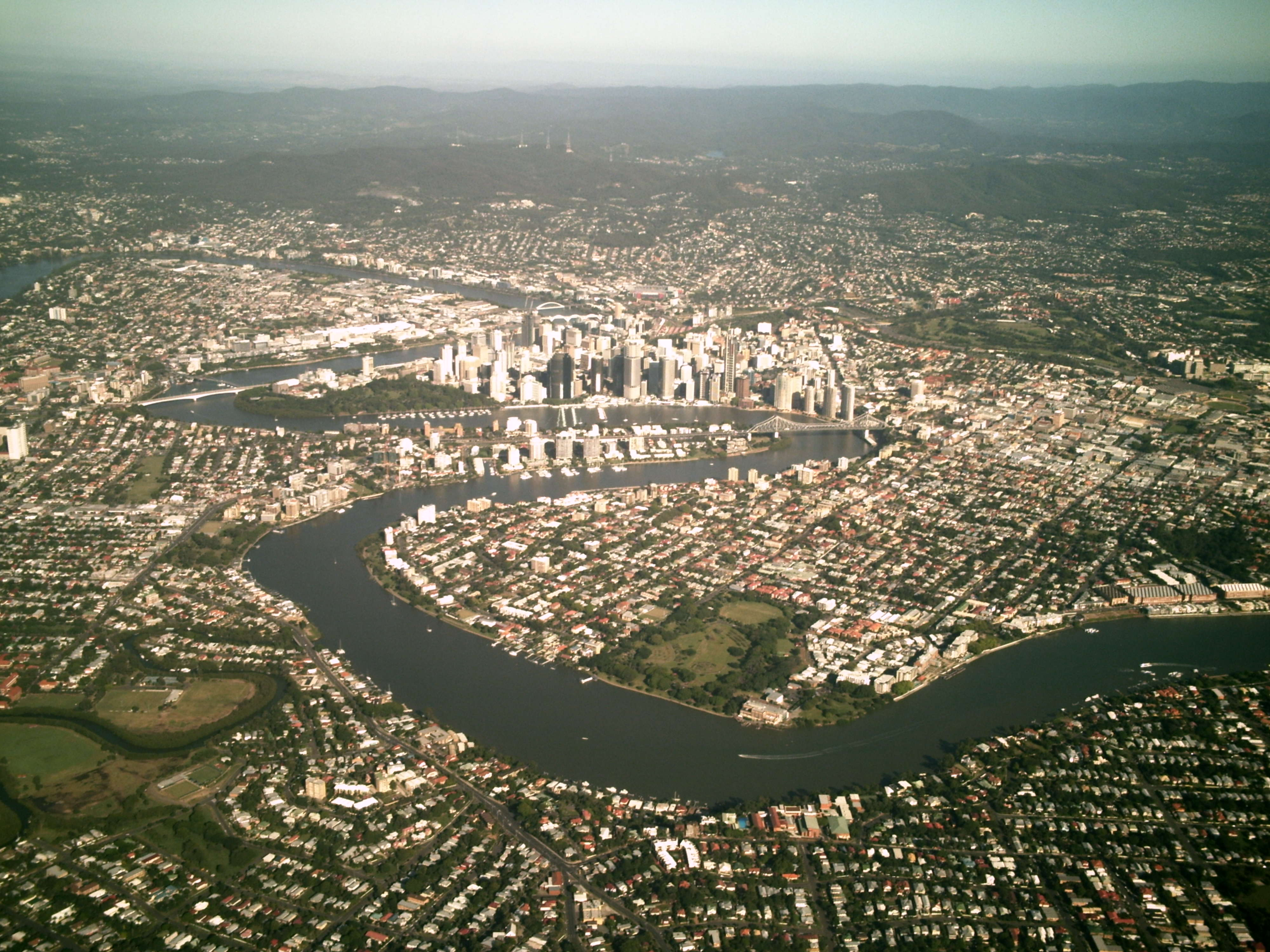 Brisbane CBD as viewed from the air. Captured by private digital camera, by a passenger on a flight to Cairns shortly after take-off from Brisbane. Date 26/03/2006.